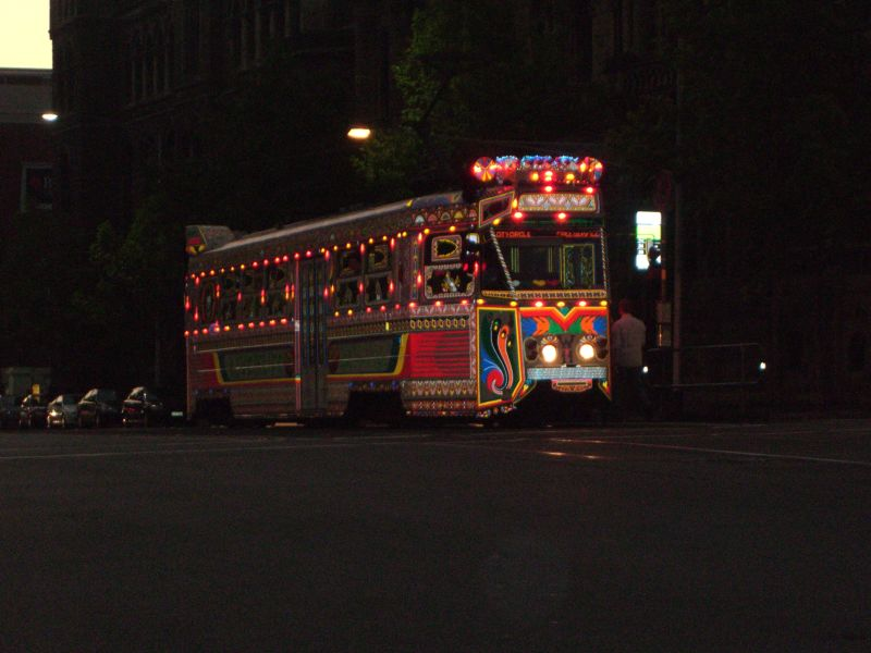 Tram Z1.81 - the 'Karachi tram' Original caption: This must be some kind of Bollywood-themed party tram! It was filled people dancing and singing :) It has been sighted as early as March 2006! - Bollywood Tram - Bollywood Tram at large in Melbourne - Bollywood Tram